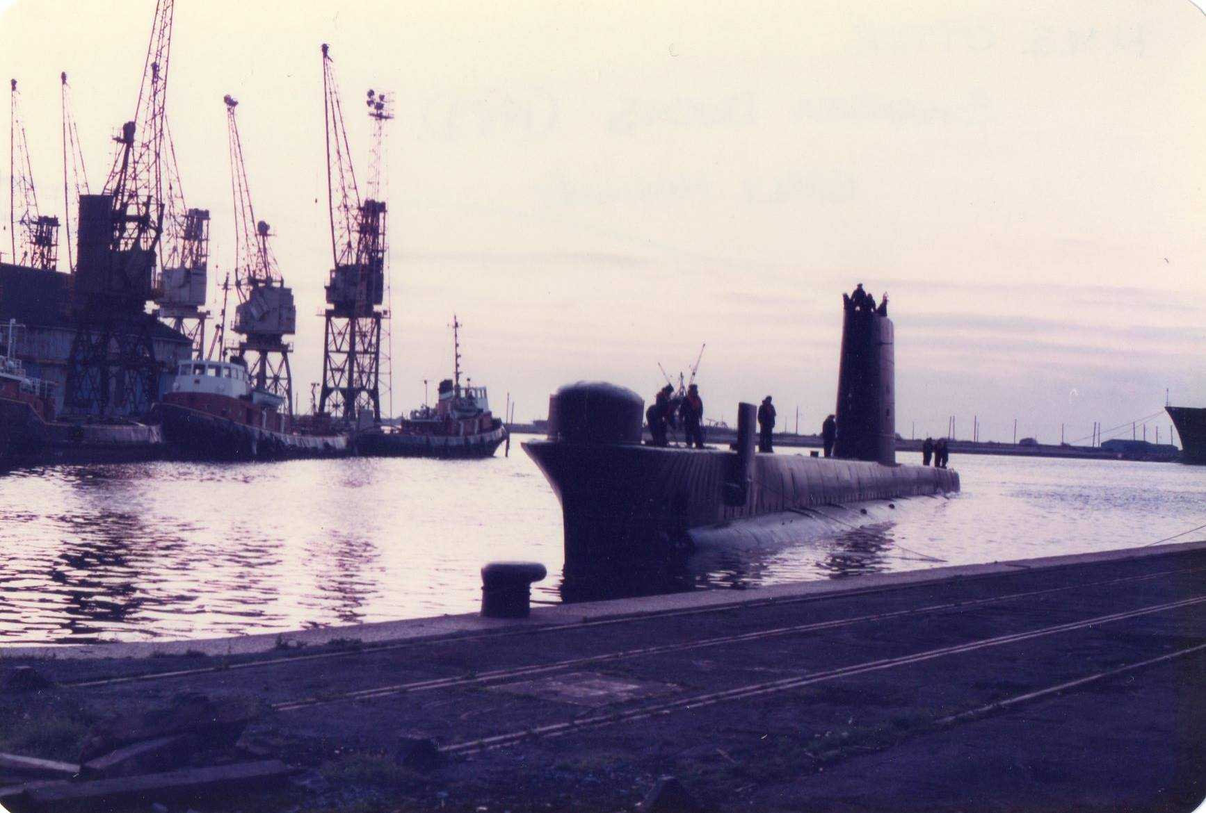 Swansea Docks 1982